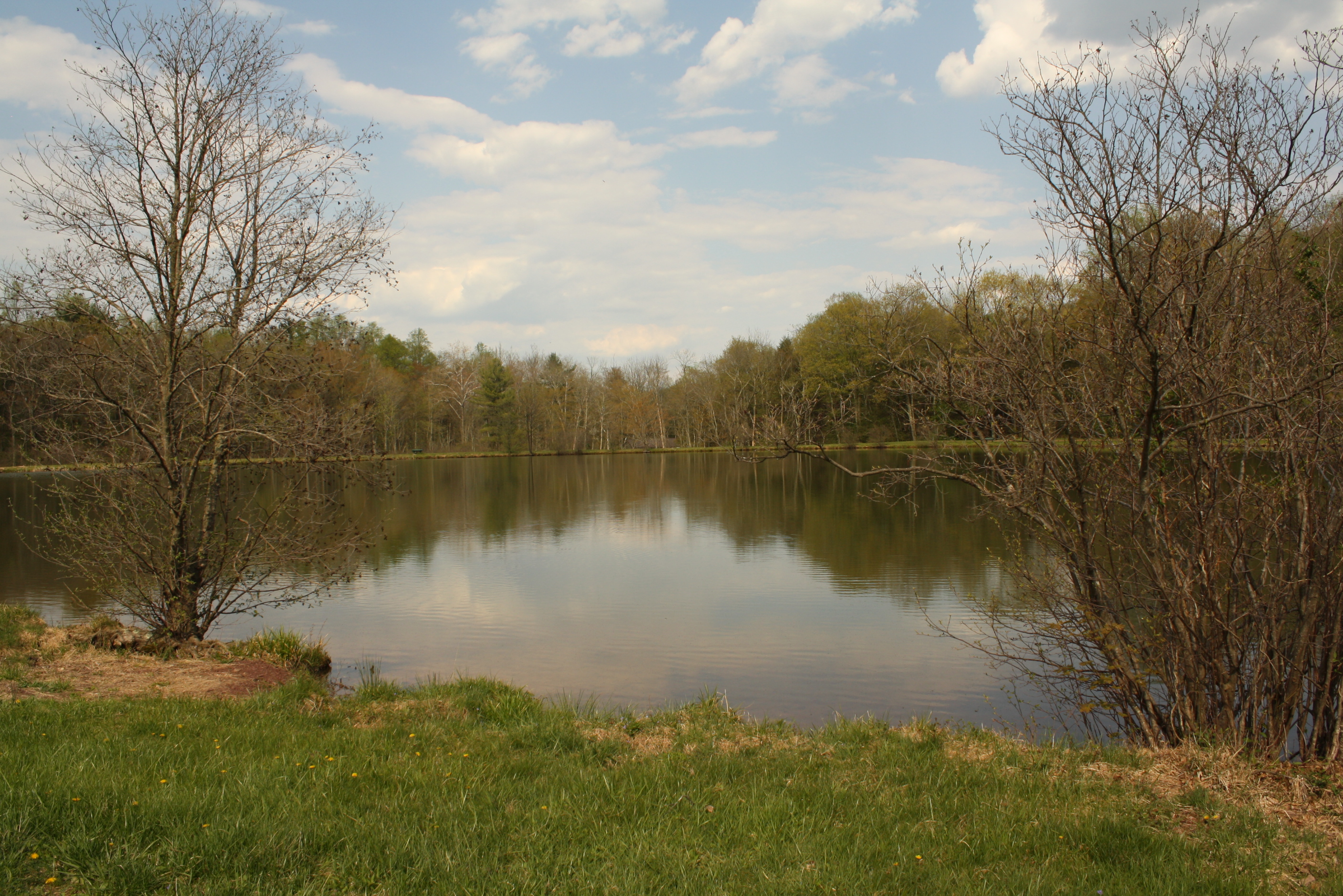 A lake.